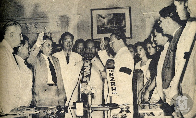 Vice-President Elpidio Quirino was inaugurated as the 6th President of the Philippines on April 17, 1948 at the Council of State Room, Executive Building, Malacañang Palace. The oath of office was administered by Chief Justice Manuel Moran.